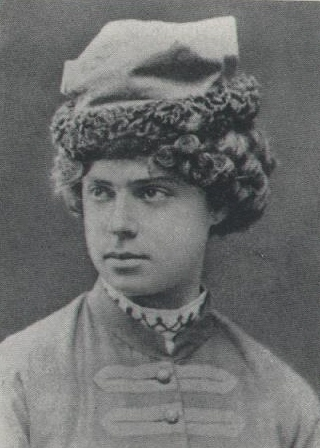 Evlaliia Kadmina as Vania in Glinka's "A Life for the Tsar" at the Bol'shoi Theatre in Moscow in 1873